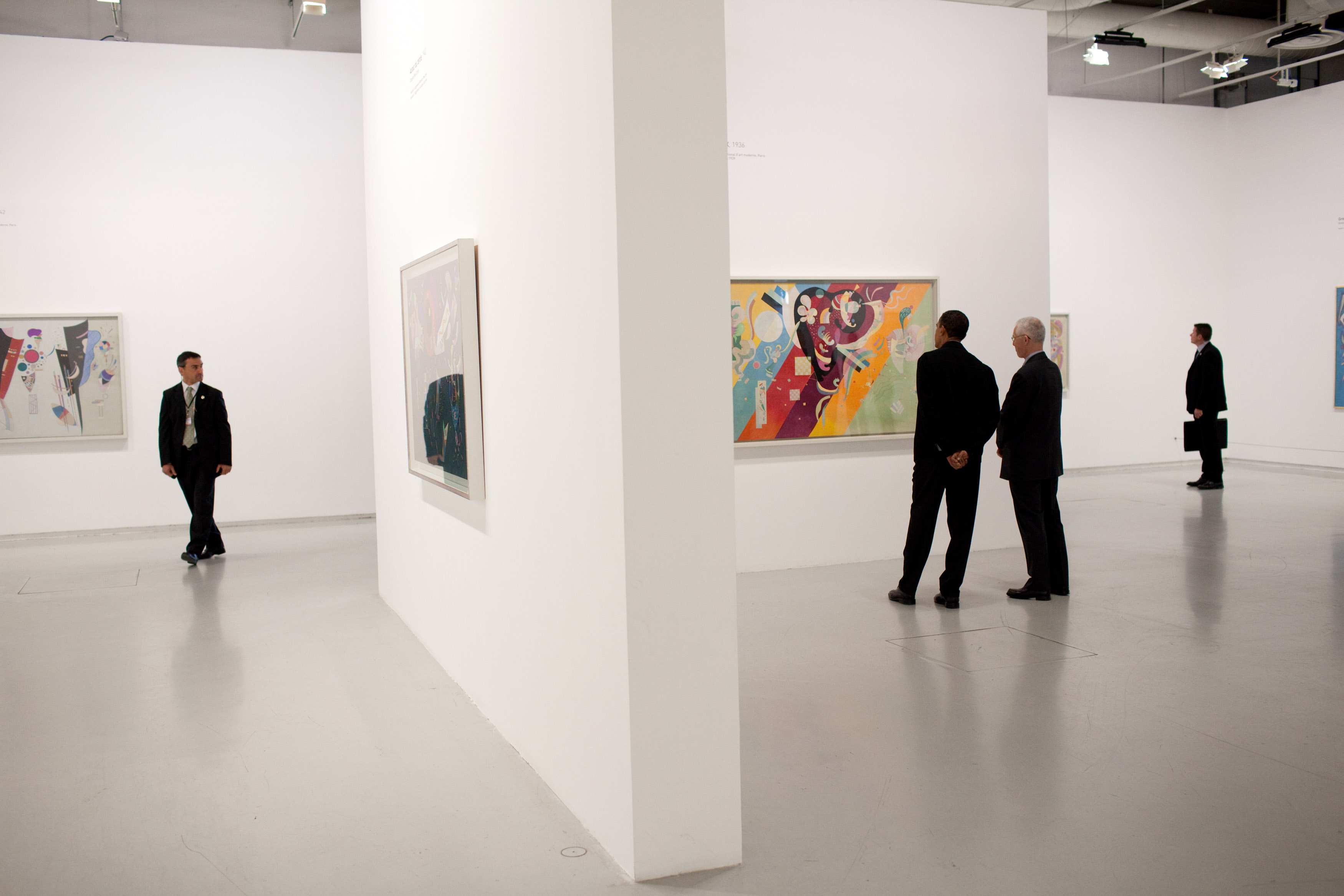 President Barack Obama tours a Kandinski exhibit at the Centre Pompidou modern art museum in Paris, June 6, 2009.